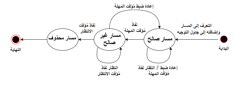 Route state machine diagram in RIP.